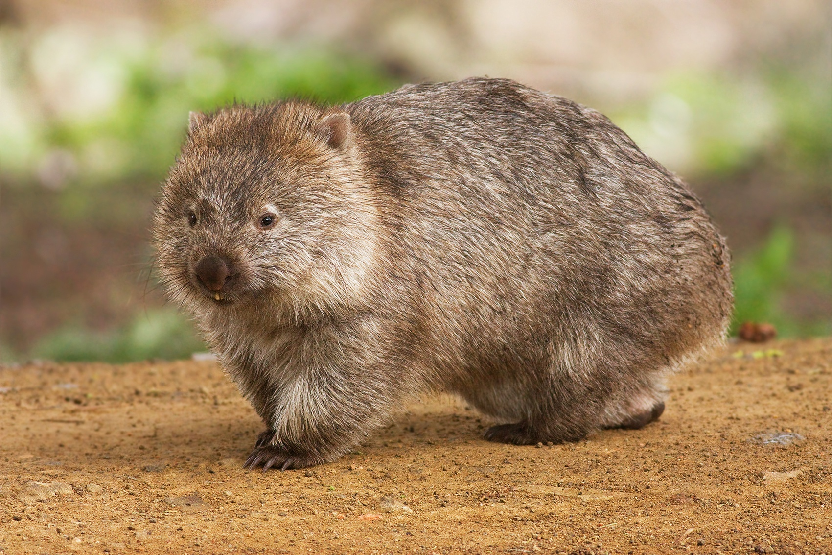 Common Wombat (Vombatus ursinus tasmaniensis) on Maria Island, Tasmania, Australia. The entire island is a national park, Maria Island National Park. The adult is just under a metre in length on average.